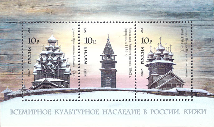 Stamp of the Russia, Kizhi, 2008